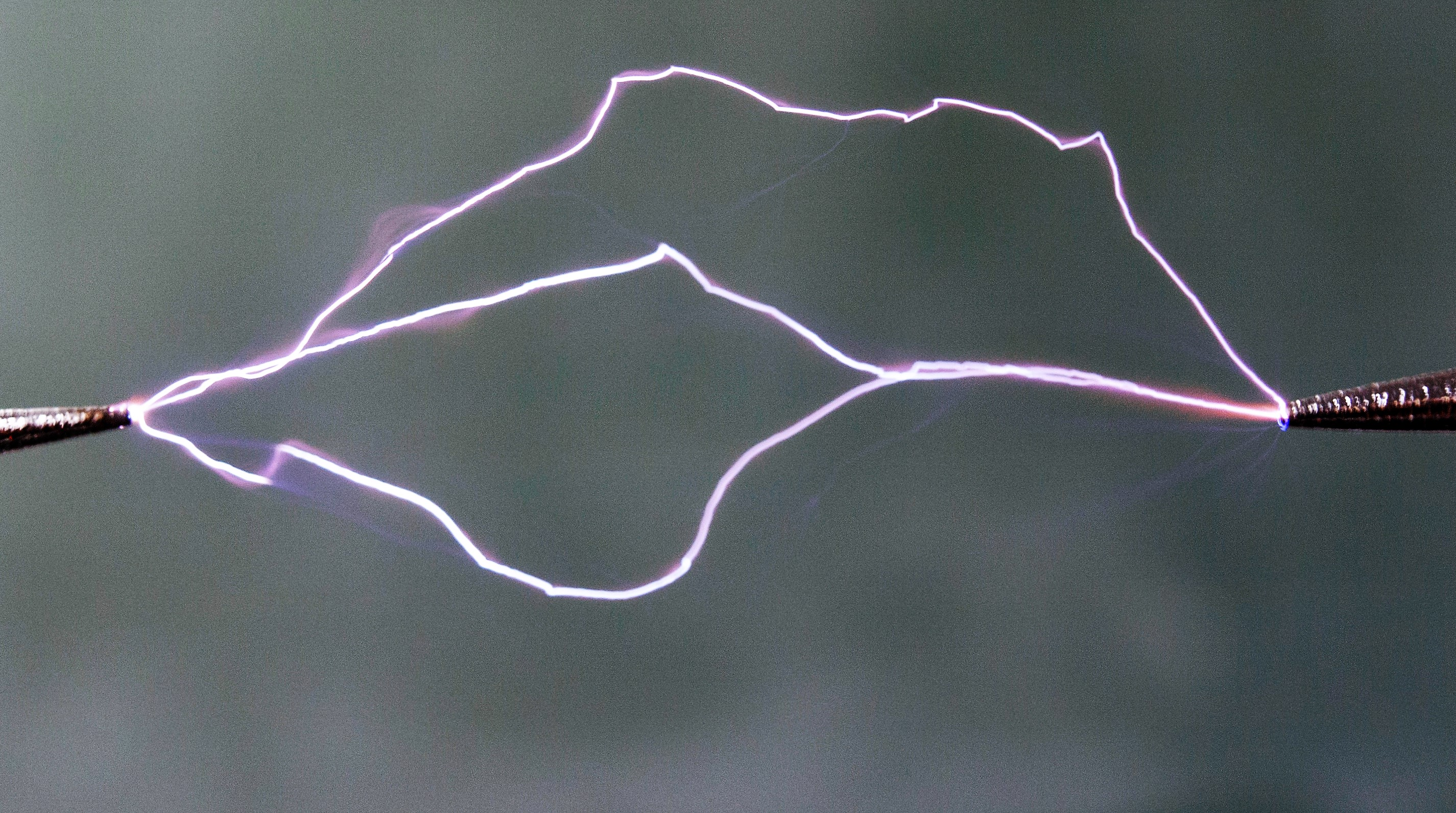 Υψηλή τάση από επαγωγικό πηνίο Ruhmkorff.